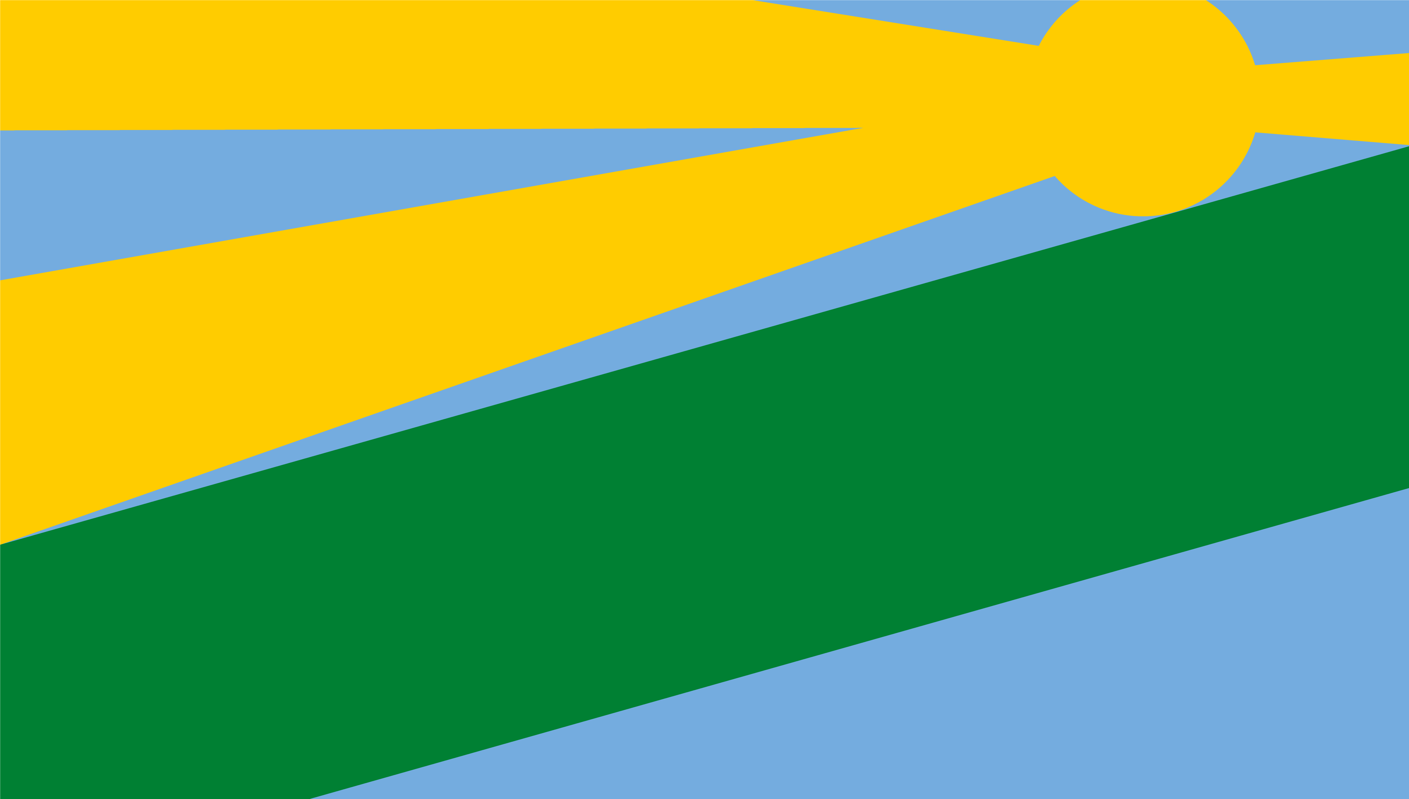 Flag of the Francisco del Carmen Carvajal Municipality, Anzoátegui State, Venezuela